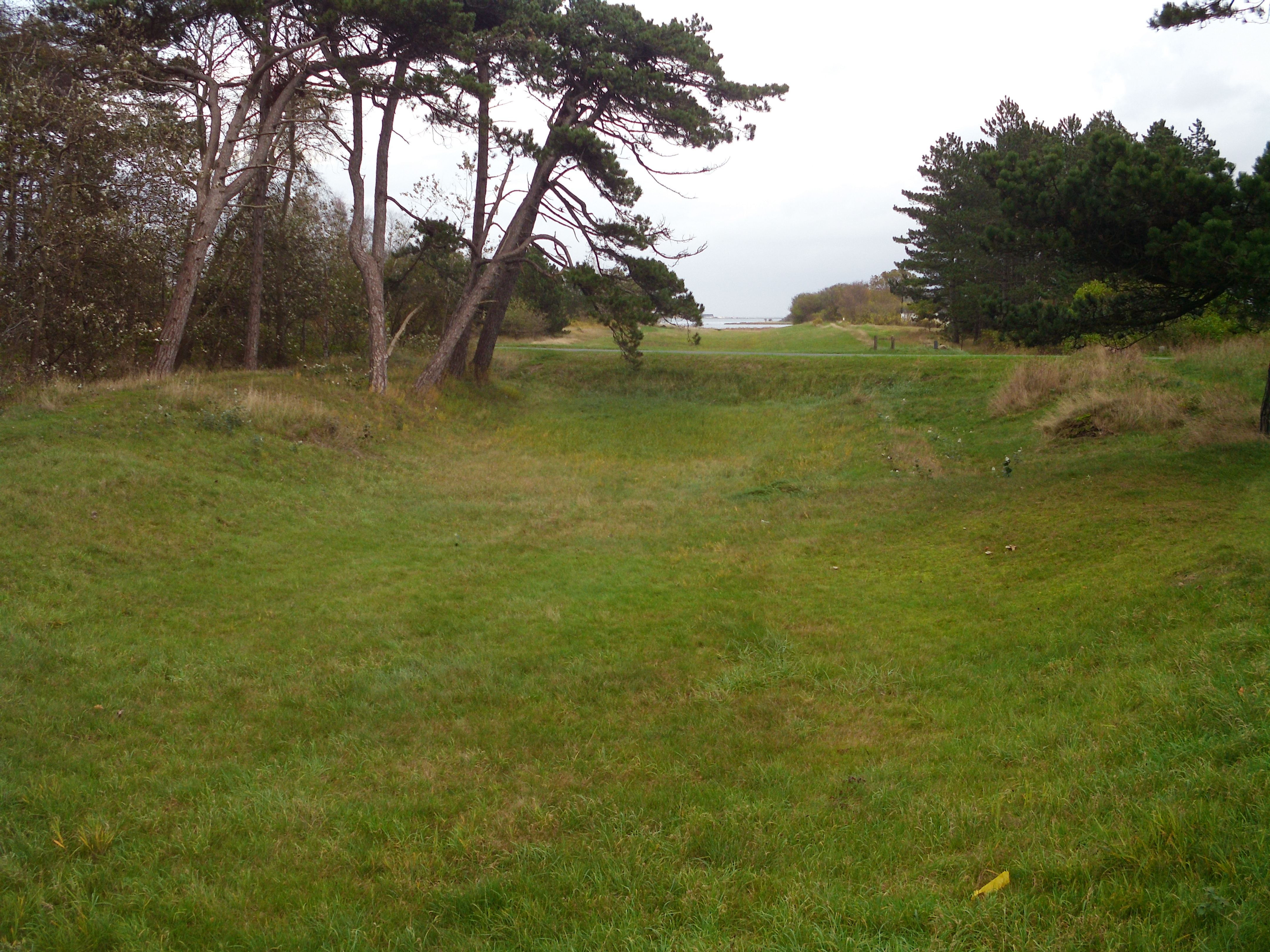 A present view of Kanhavekanalen, a former Viking-era canal, on the island of Samsø, Denmark